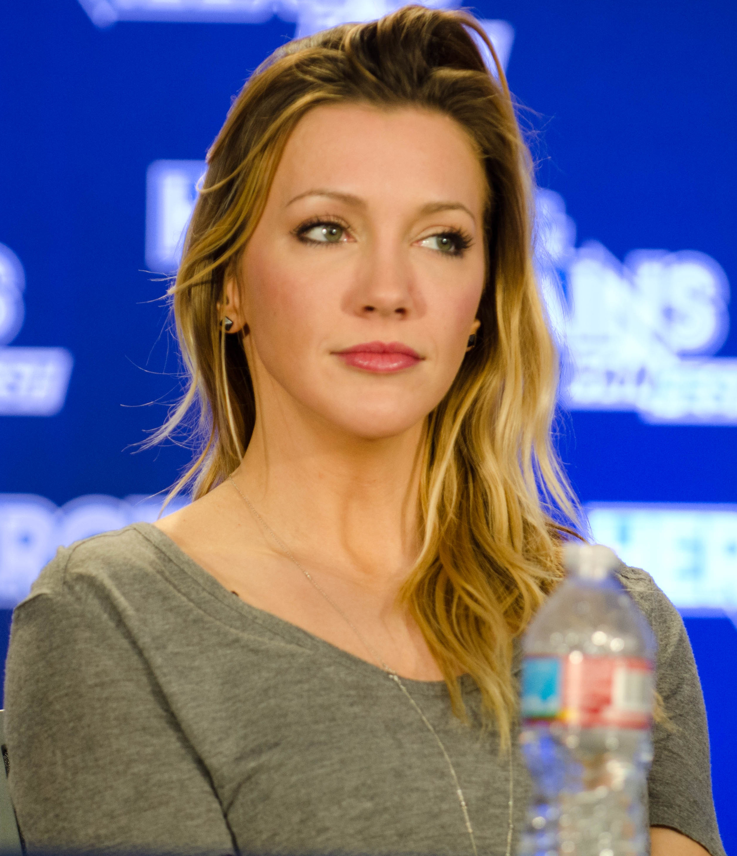 Katie Cassidy HVFF The Lances panel.